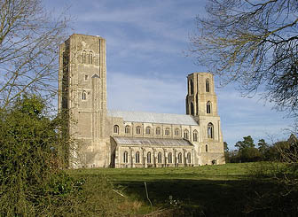 Taken by Edward Mooney, me. Also available at etm's Flickr.